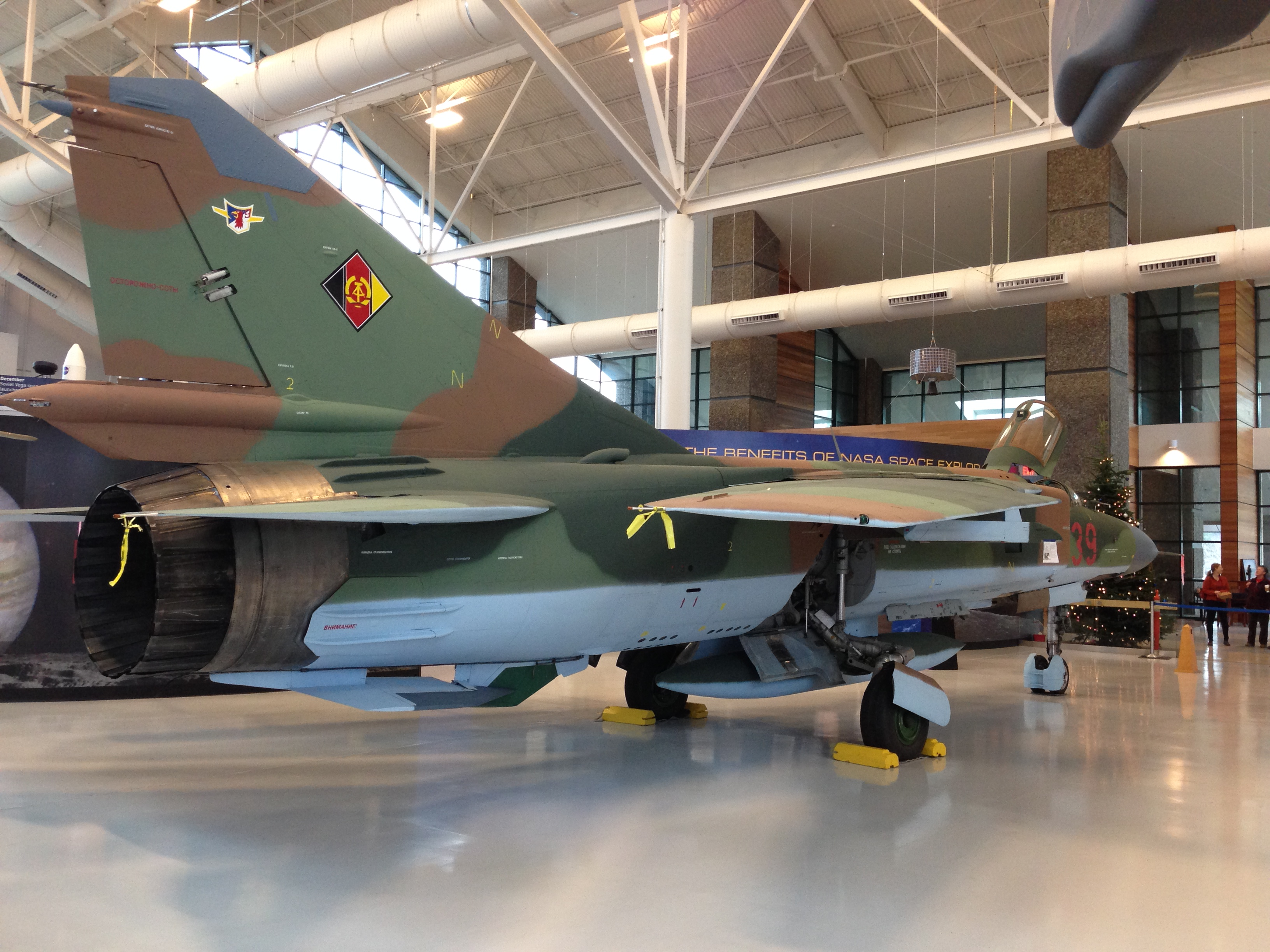 Mikoyan-Gurevich MiG-23ML 'Flogger-G' of the 9th Fighter Squadron (JG9) of the Air Forces of the National People's Army of the German Democratic Republic. 12/27/2013 Evergreen Aviation & Space Museum, McMinnville, Oregon, USA.